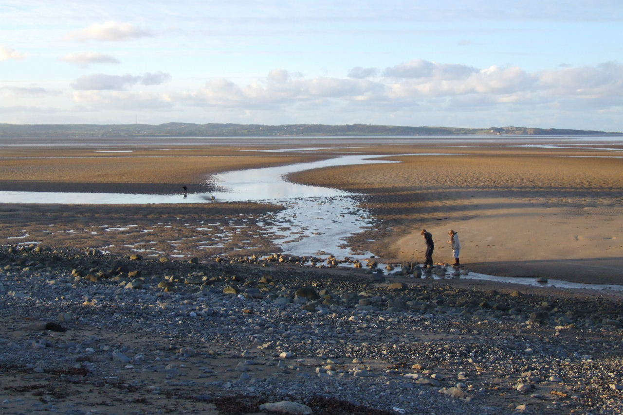 Traeth Lafan sands with Anglesey and Menai Straits from near Llanfairfechan, Conwy County, Wales.